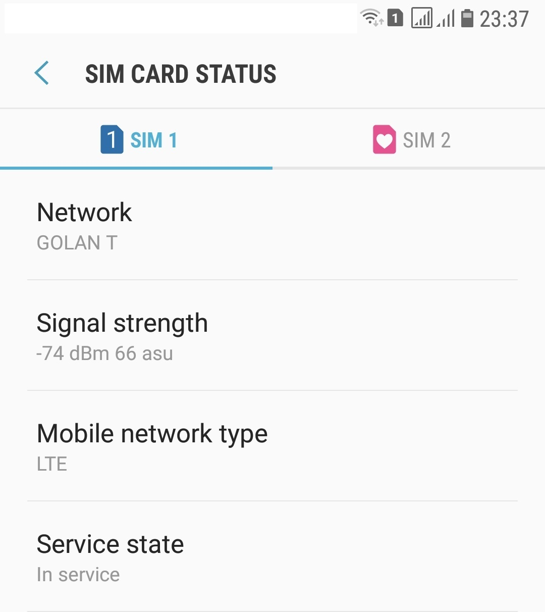 Received Signal strength At to top row bar display of signal strength for two cellular networks, and arches representing signal strength of a WiFi network RSSI power -74dbm 66asu LTE Golan Telecom